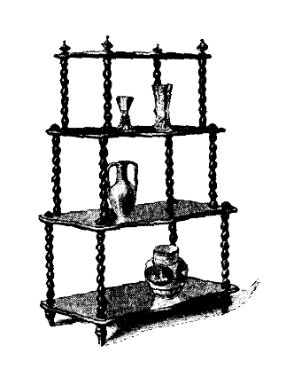 Shelf